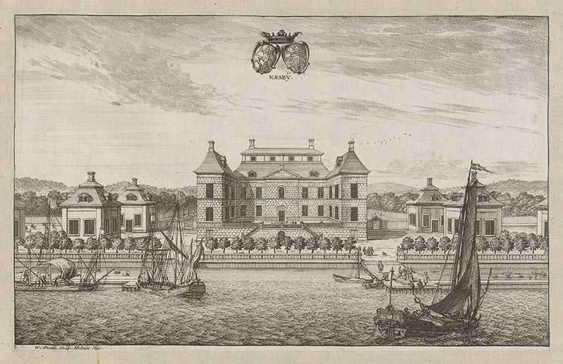 Näsby slott, Täby municipality, Stockholm's county. Näsby castle in the late 17th century. Picture made by Erik Dahlbergh.